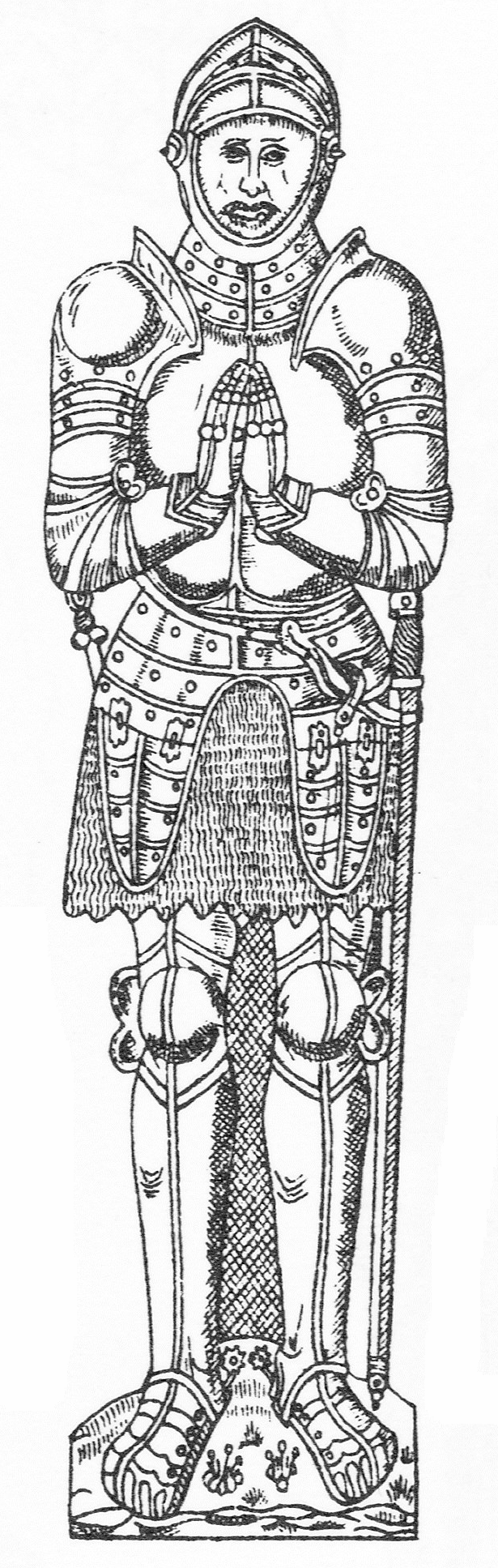 Monumental brass in Stratton Church, Cornwall, of Sir John IV Arundell (1495–1561), known as "Jack of Tilbury", an Esquire of the Body to King Henry VIII whom he served as Vice-Admiral of the West. He was knighted at the Battle of the Spurs in 1513. In 1523 he achieved notability by the capture of a notorious pirate. He served twice as Sheriff of Cornwall, in 1532 and in 1541